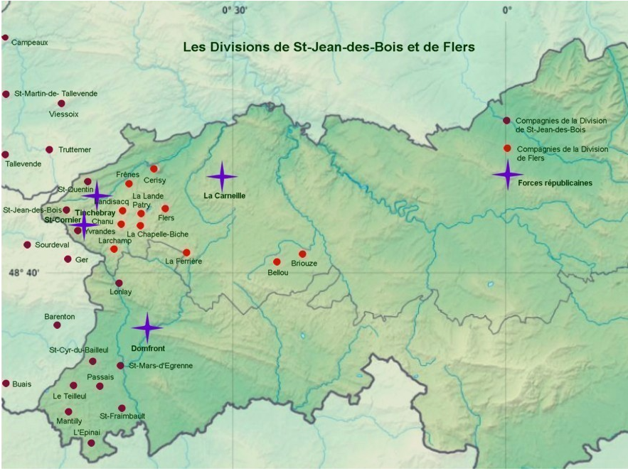 Chouannerie normande, division de Saint-Jean-des-Bois, Orne